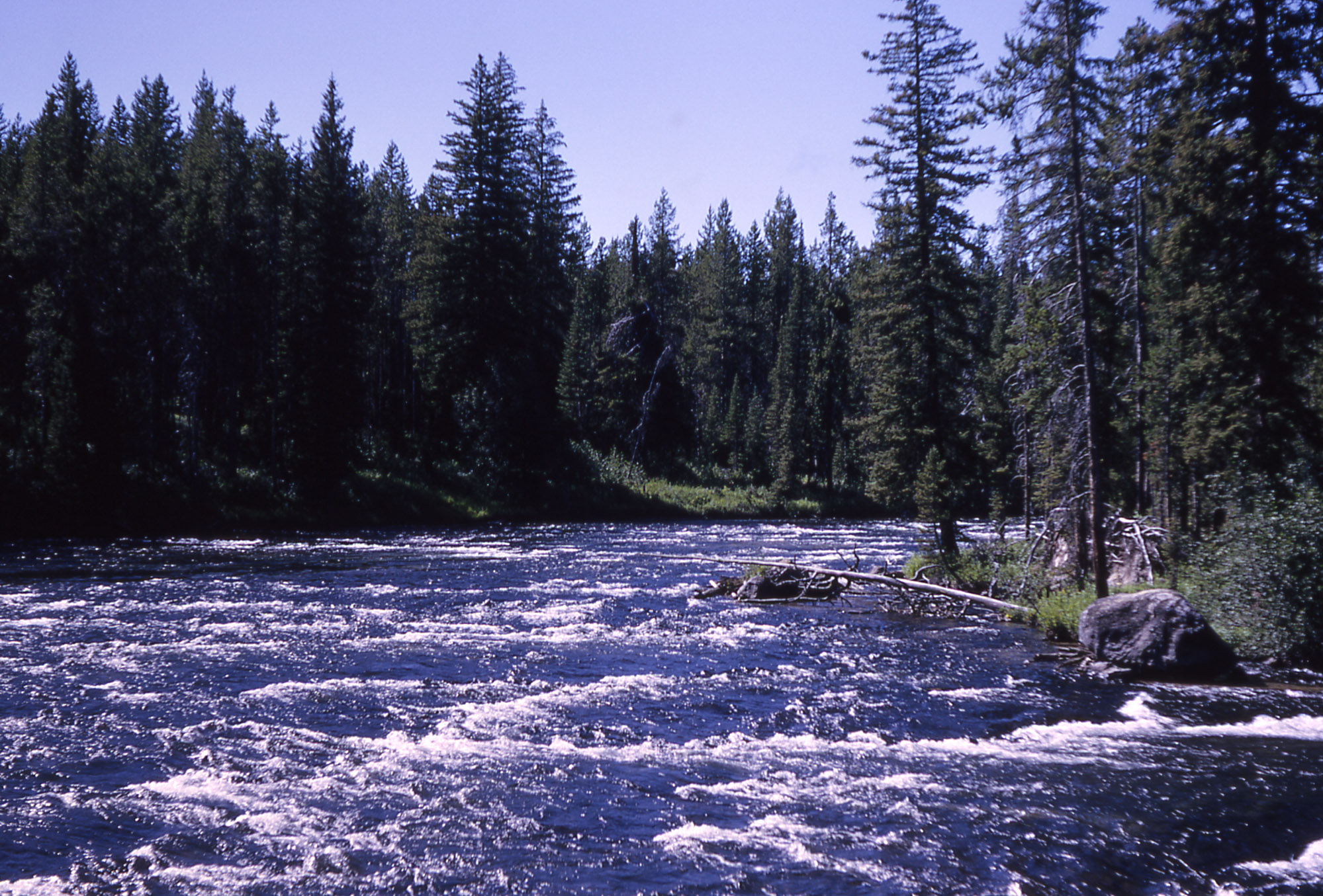 Belcher River in Yellowstone National Park (1964)